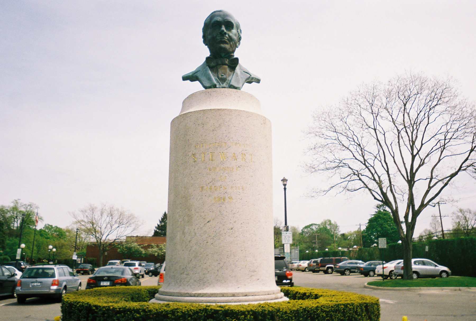 Bust of Alexander Turney Stewart, sculpted by Granville Carter, located in the north parking lot of the Garden City (LIRR station) in Garden City, New York.